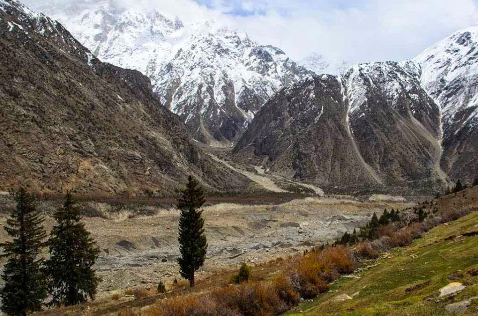 This picture is taken from the western edge towards the eastern edge. The part here visible is its starting point and it grows in altitude and quantity of ice reserve as we move northward.